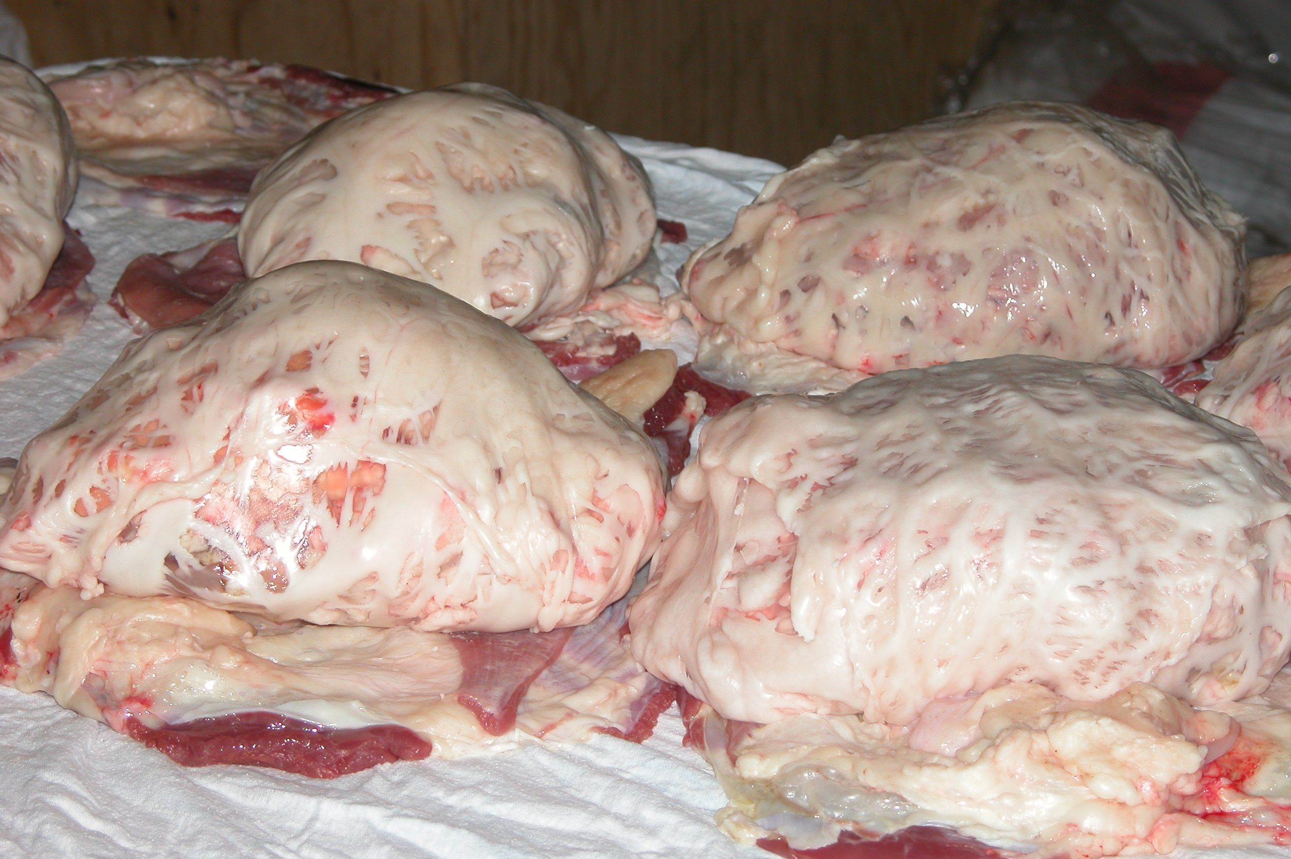 Garnatálg is a faroese speciality